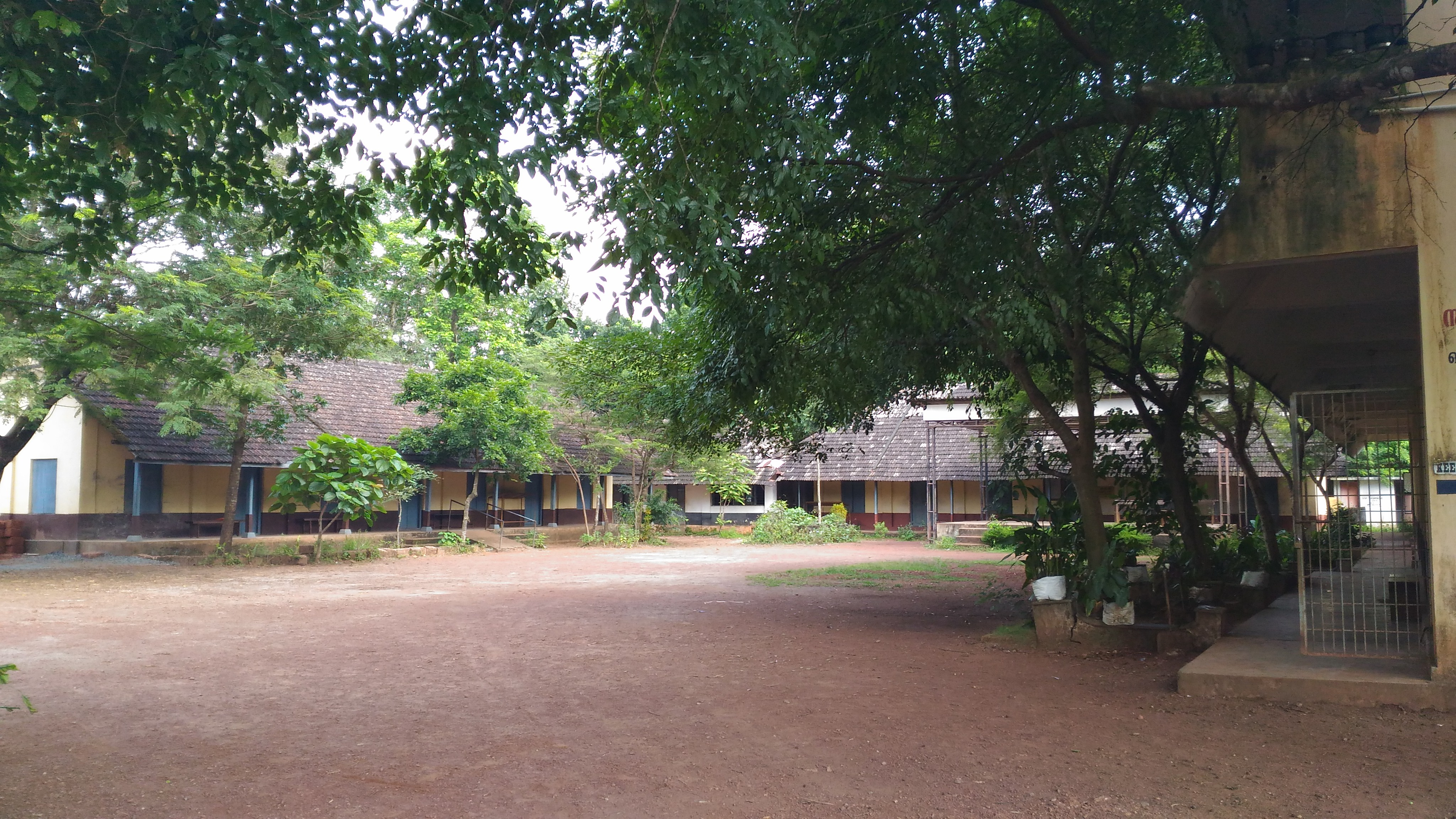 ghss balla kanhangad